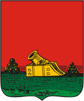 Bryansk, coat of arms (1781)